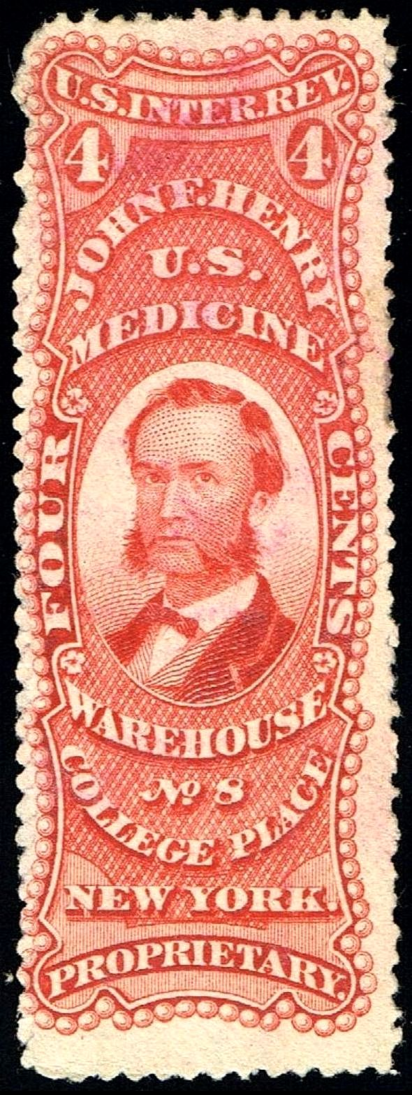 Image of Revenue John Henry medicine tax stamp, 1862 (Scotts# RS116)